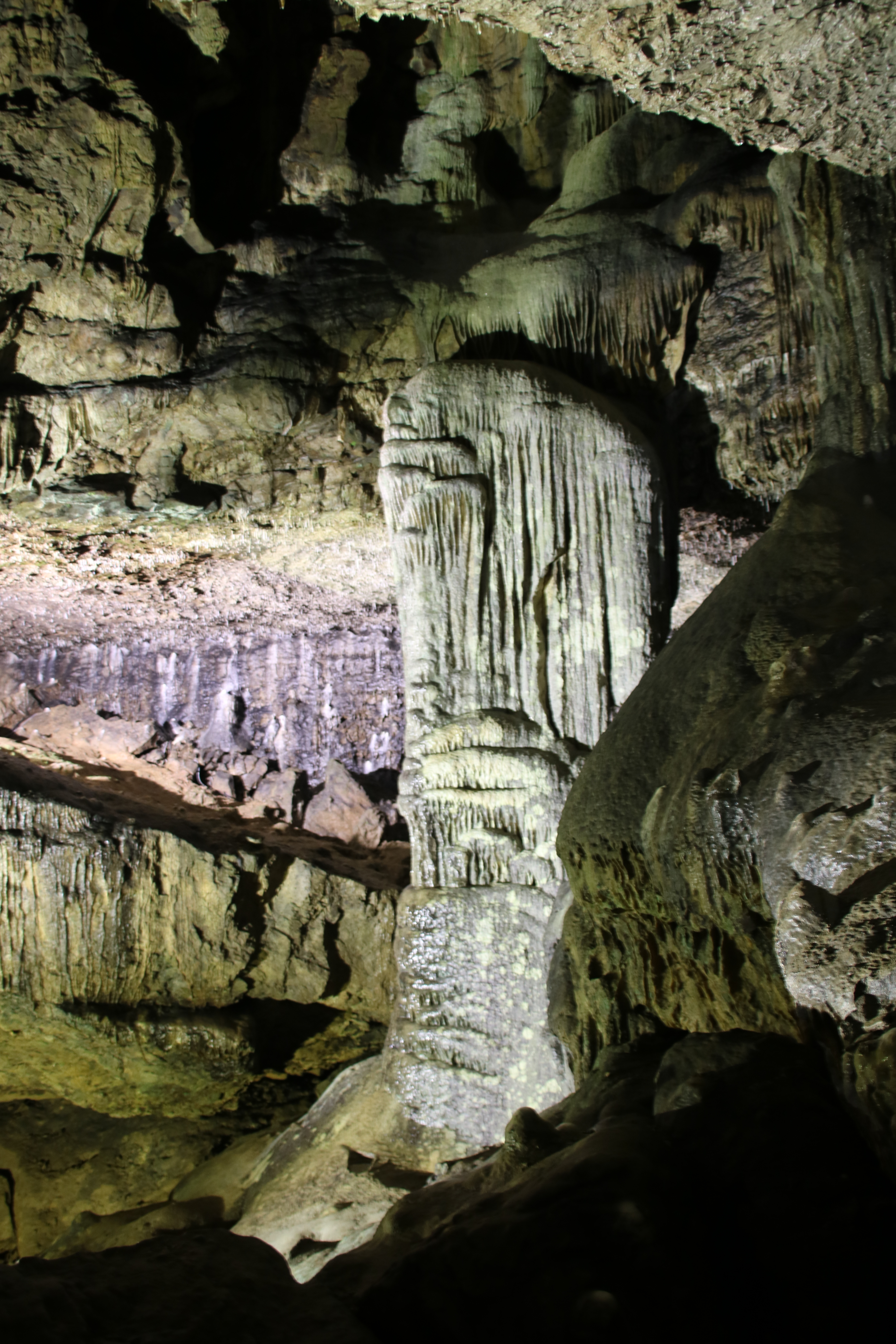 The so-called "Market cross" in Dunmore Cave, a large calcite formation.